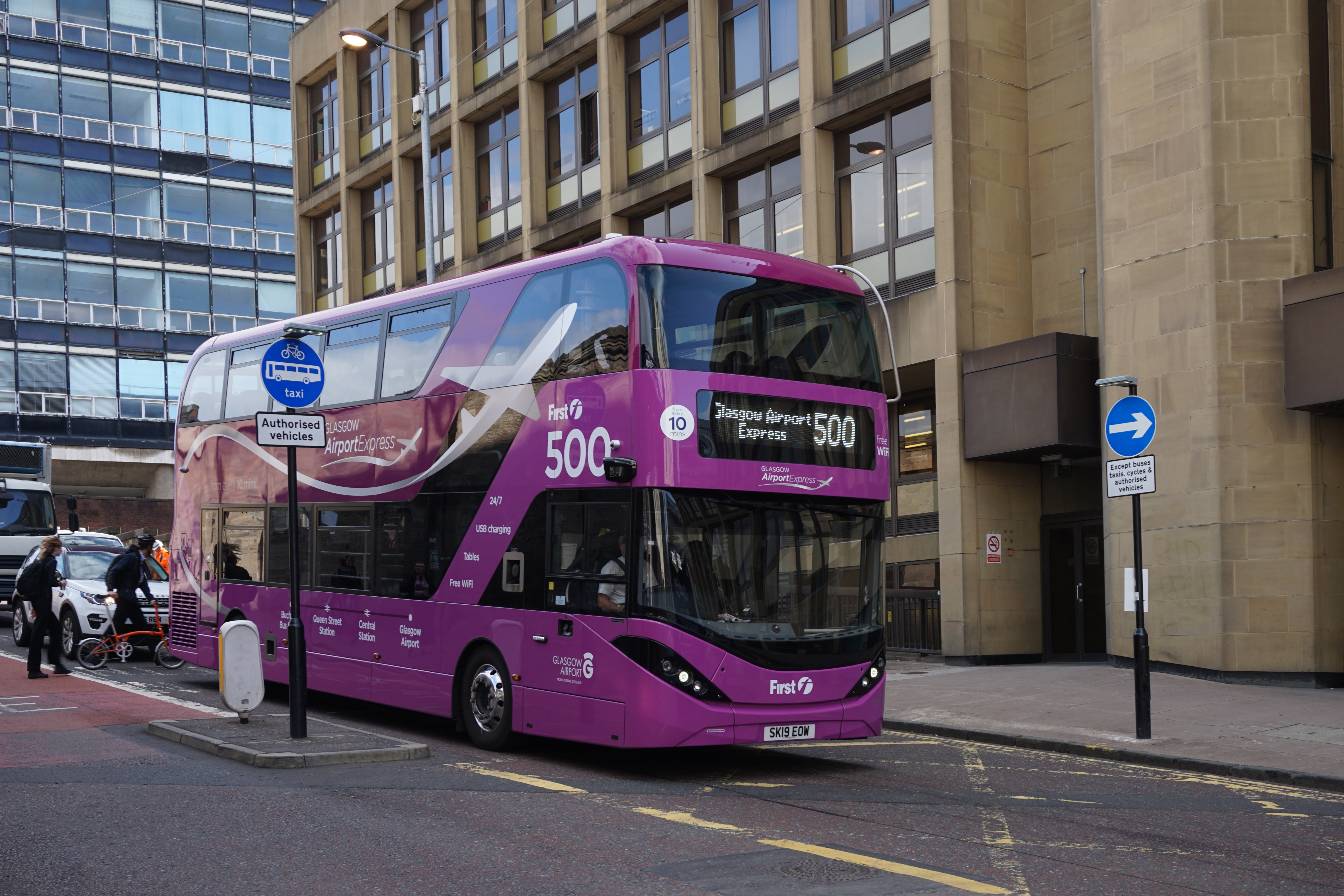 First Glasgow airport express bus (Alexander Dennis Enviro400) near Queen Street Station.